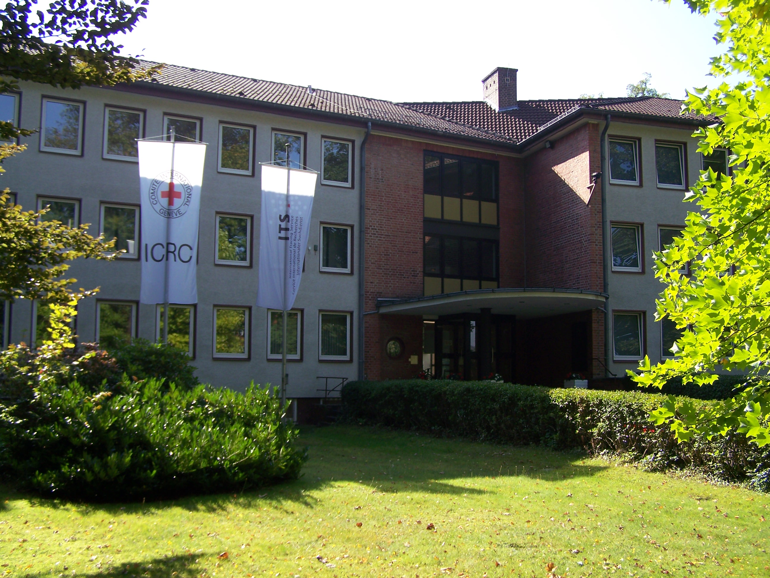 Headquarters of the International Tracing Service with ICRC flag. Main purpose see article on the ITS.